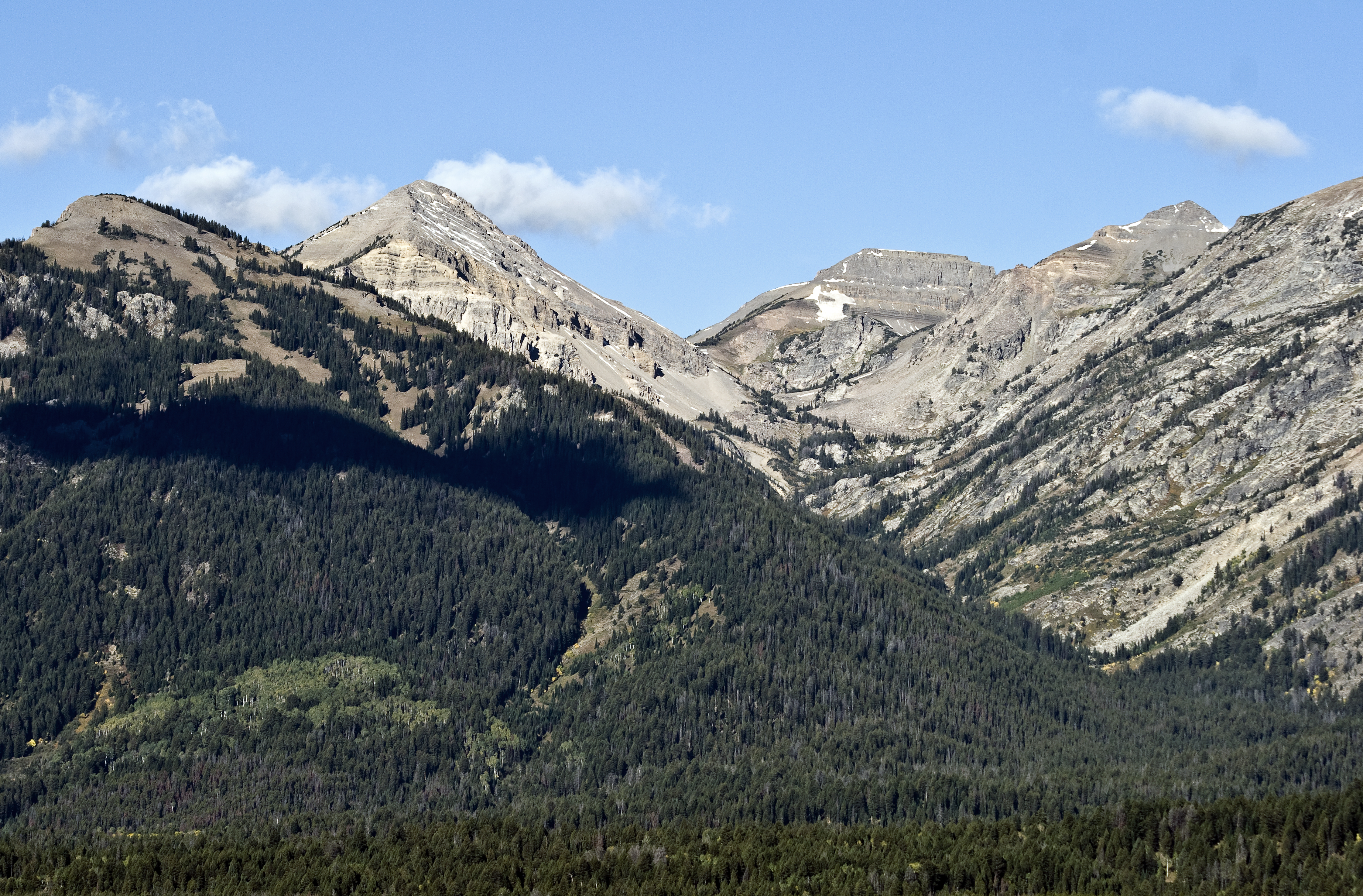 Open Canyon with Mount Hunt at left in Grand Teton National Park, Wyoming, USA, as seen from the Albright View turnout